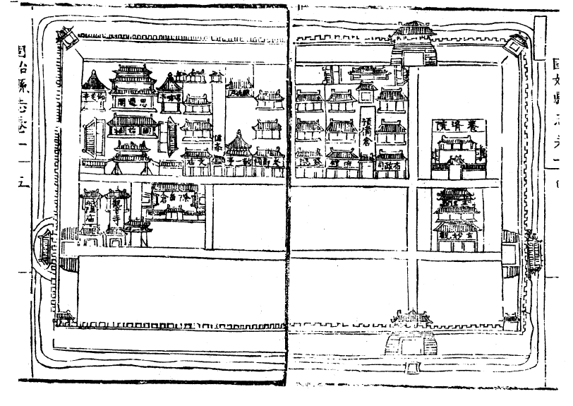 A map of city wall in Gushi, China